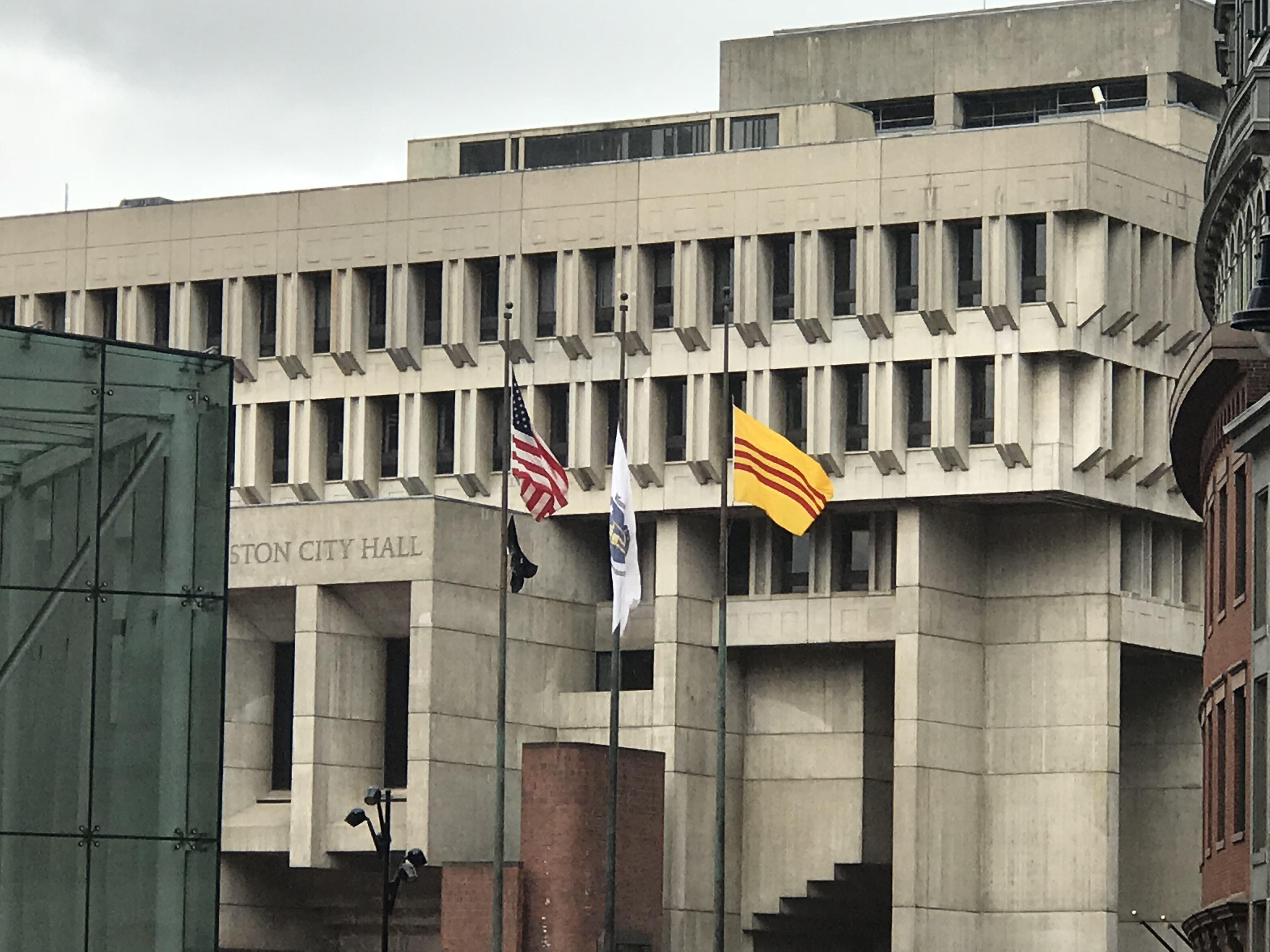 South Vietnam Flag Boston City Hall 2018